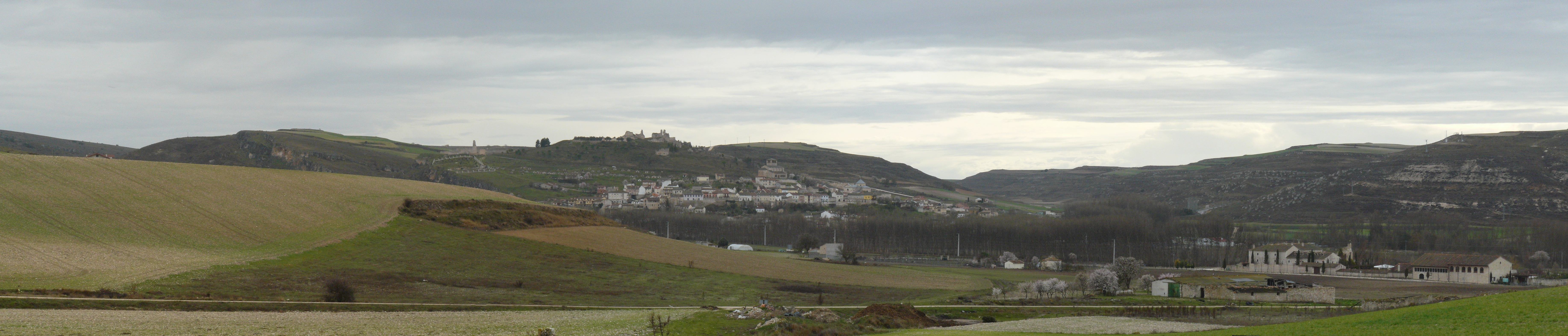 View of Fuentidueña (province of Segovia, Spain), from the North East.